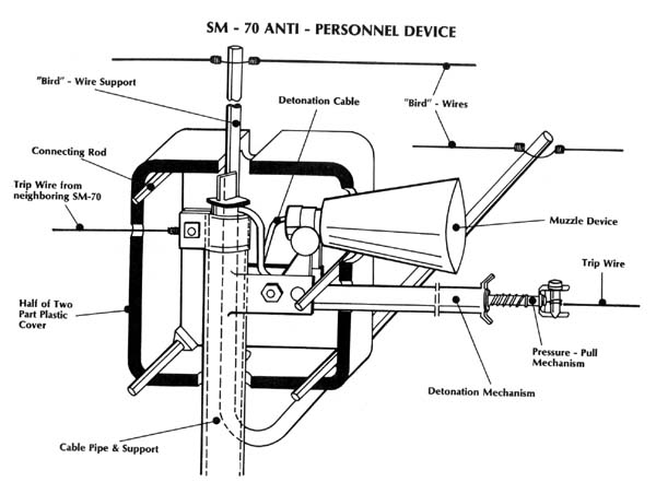 Schematic drawing of the East German SM-70 antipersonnel mine.